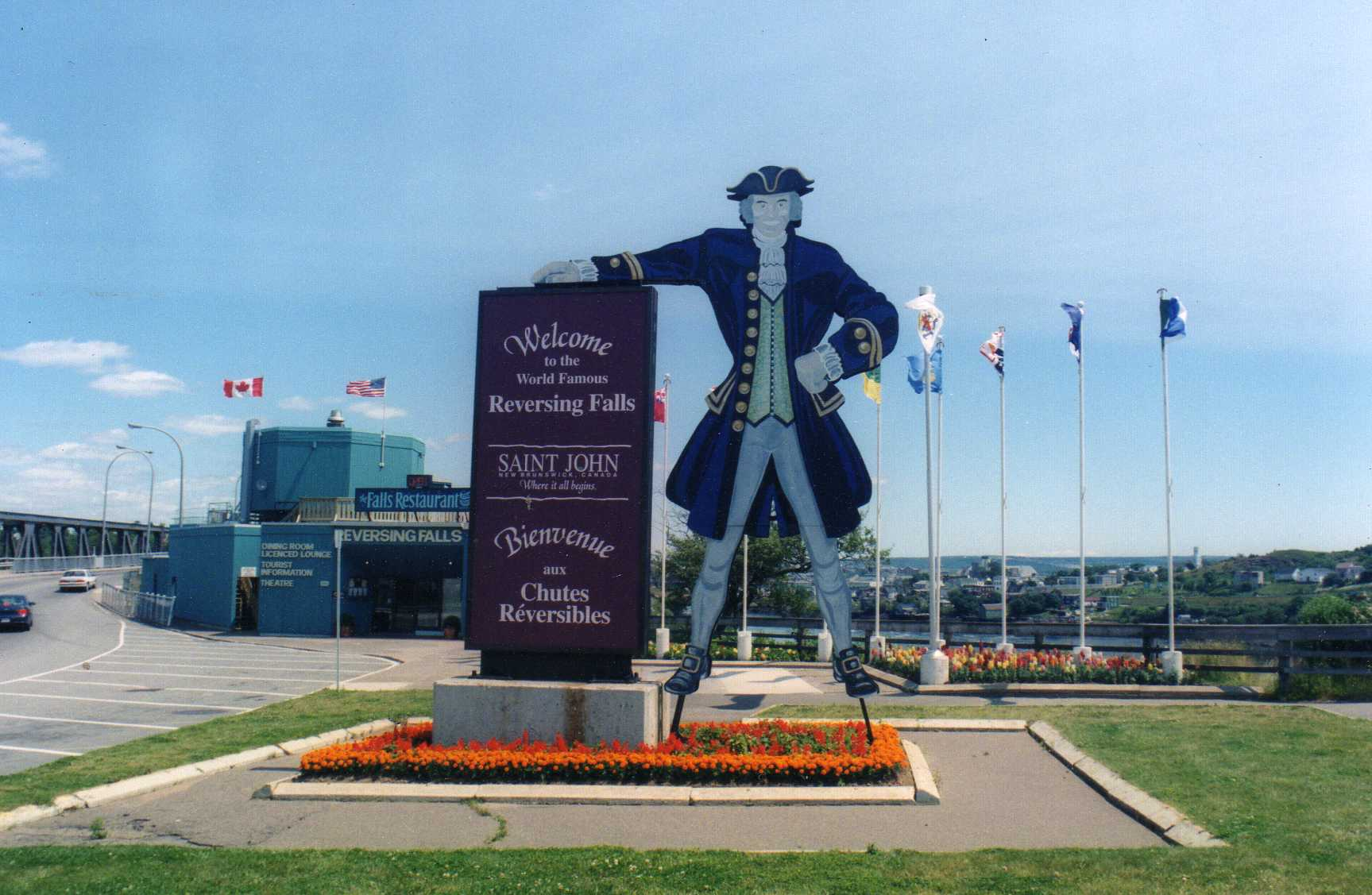 The Reversing Falls viewpoint, tourist offic and "Loyalist Man"